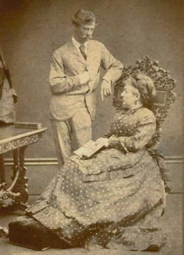 British sculptor, Sir Joseph Edgar Boehm, with Princess Louise, the sixth child of Queen Victoria and Prince Albert, in about 1885.